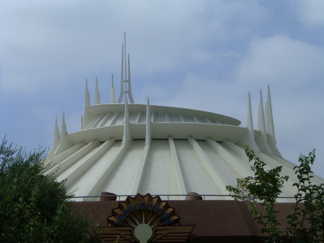 Space Mountain at Disneyland in August 2004.